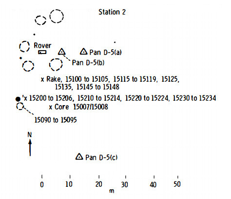 Figure 5-65 (edited slightly). Planimetric map of Apollo 15 Geology Station 2. X indicates sample locations, 5-digit numbers are LRL sample numbers, rectangle is lunar rover (dot indicates TV camera), black spots are large rocks, dashed lines are crater rims or other topographic features, and triangles are panorama stations.